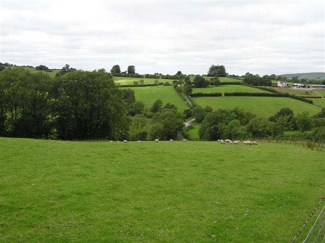 Glenmacoffer Townland. Looking northwards